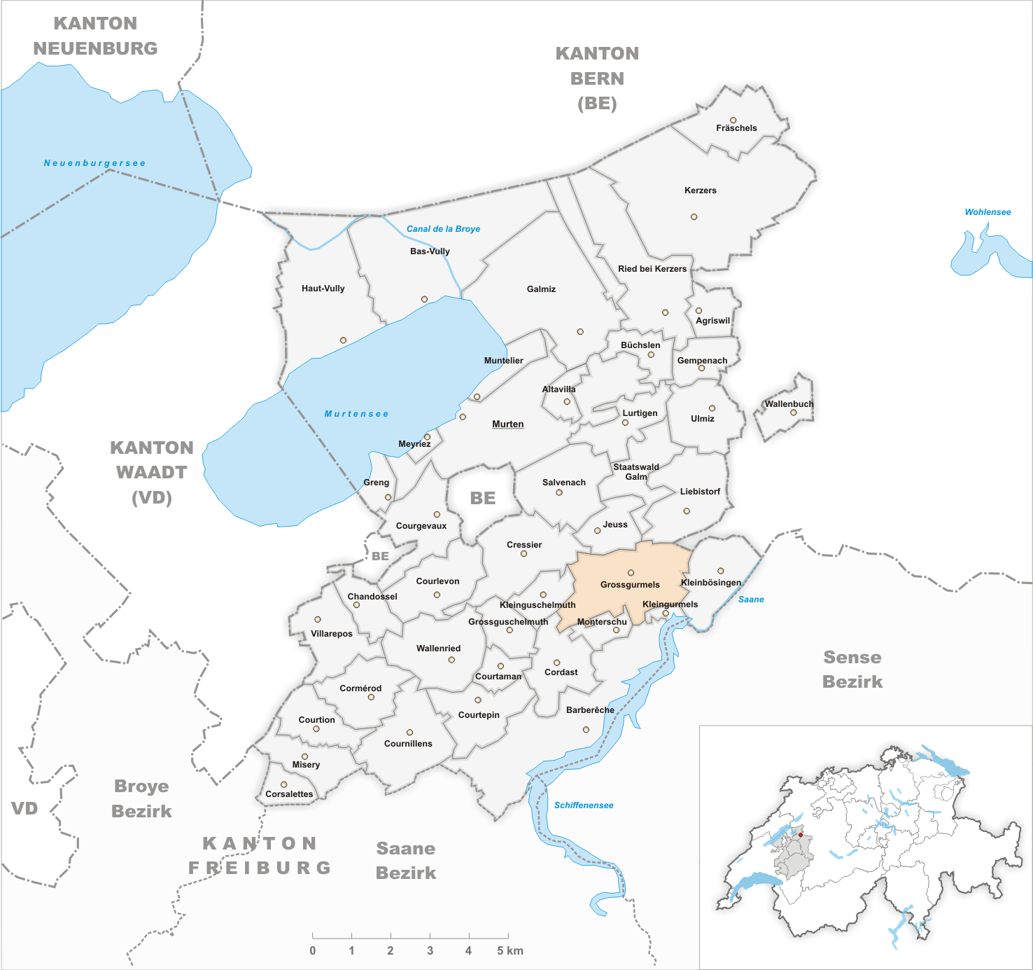 Municipality Grossgurmels Artist: Tschubby